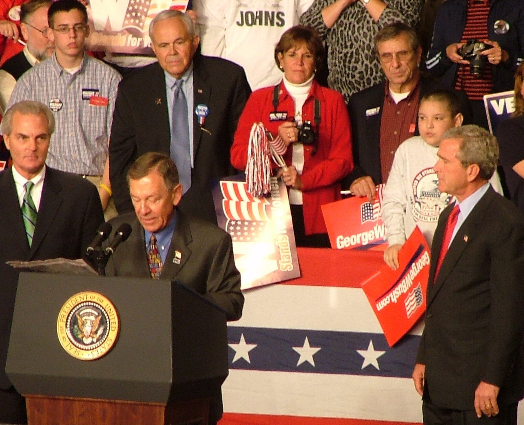 author- Joebengo